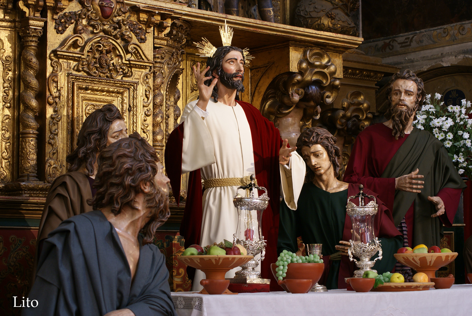 Misterio de la Sagrada Cena (Sevilla)